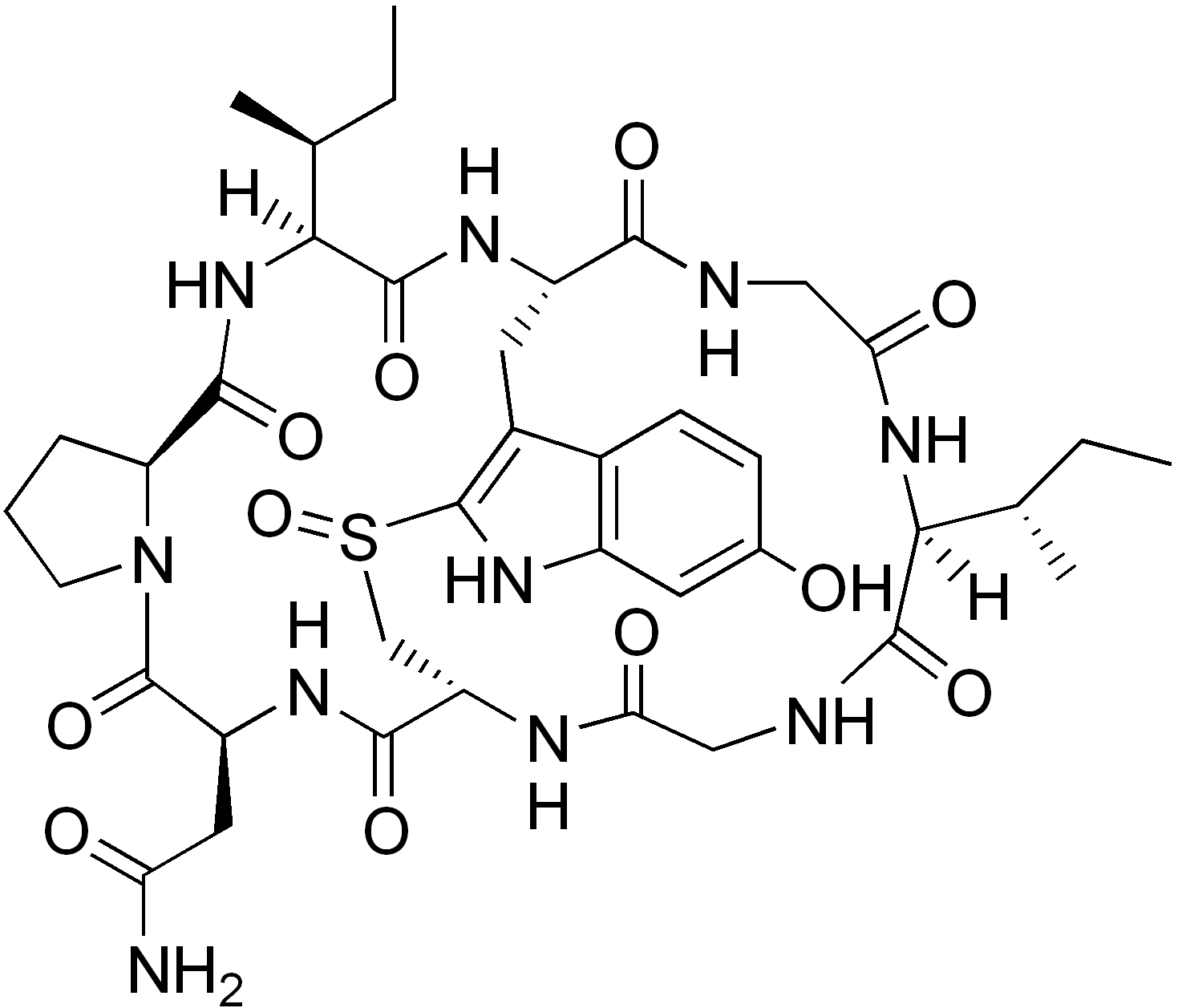 chemical structure of the amatoxin proamanullin